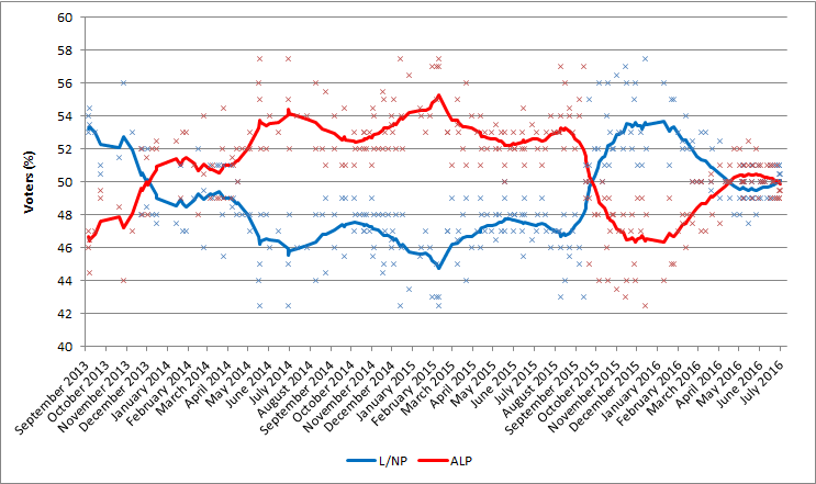 Aggregate of two-party-preferred election polling for the next Australian federal election. The graph uses a exponentially weighted moving average with a half-life of 14 days (this corresponds to an α of 0.9517) in the past, and 14 days in the future (with half the absolute weighting).